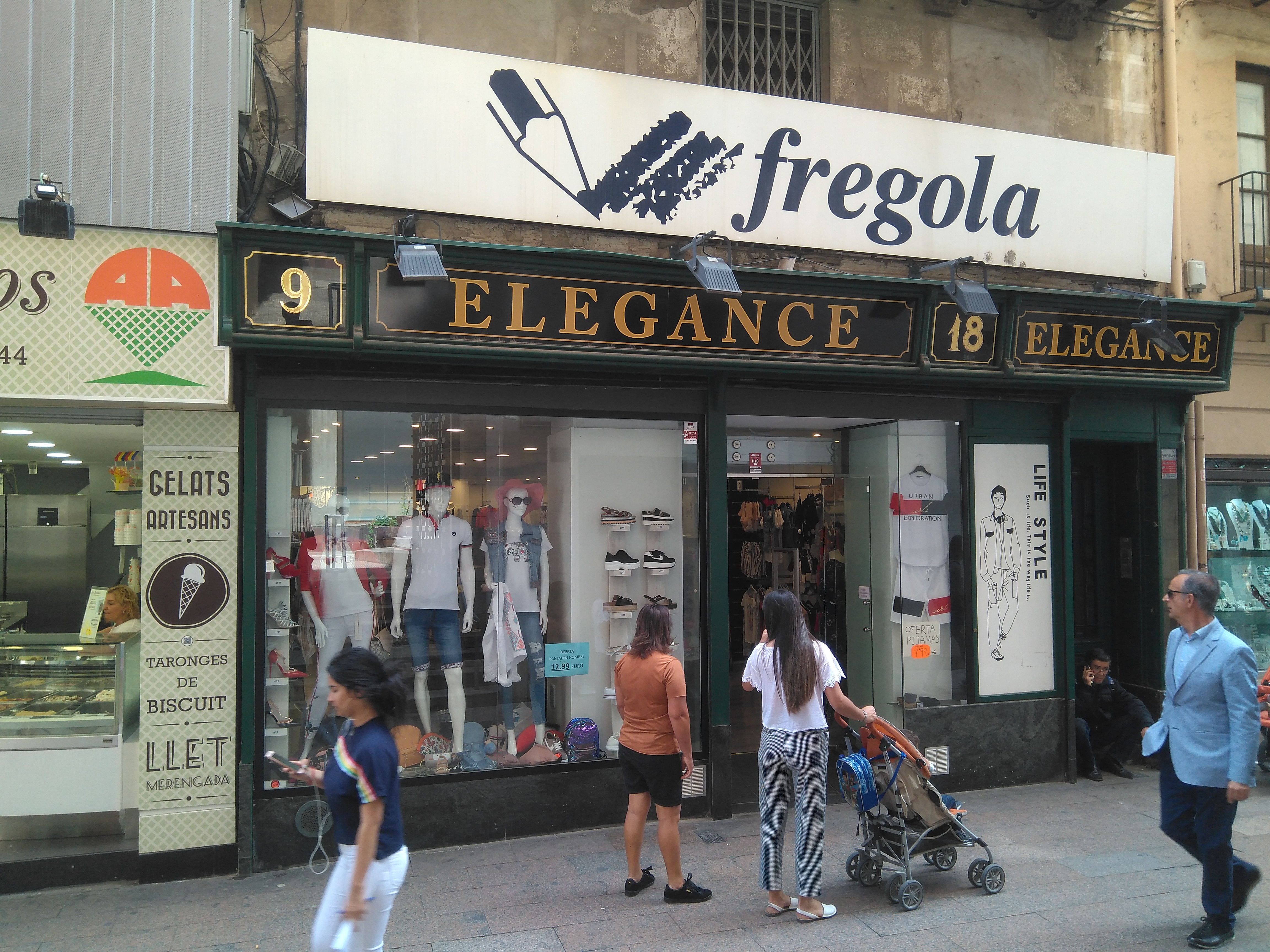 Casa Fregola in Lleida. Once the city's oldest bookshop, having been open for over one hundread years, it closed its doors in 2014. Its modernista or art nouveau façade and shop window are still visible.